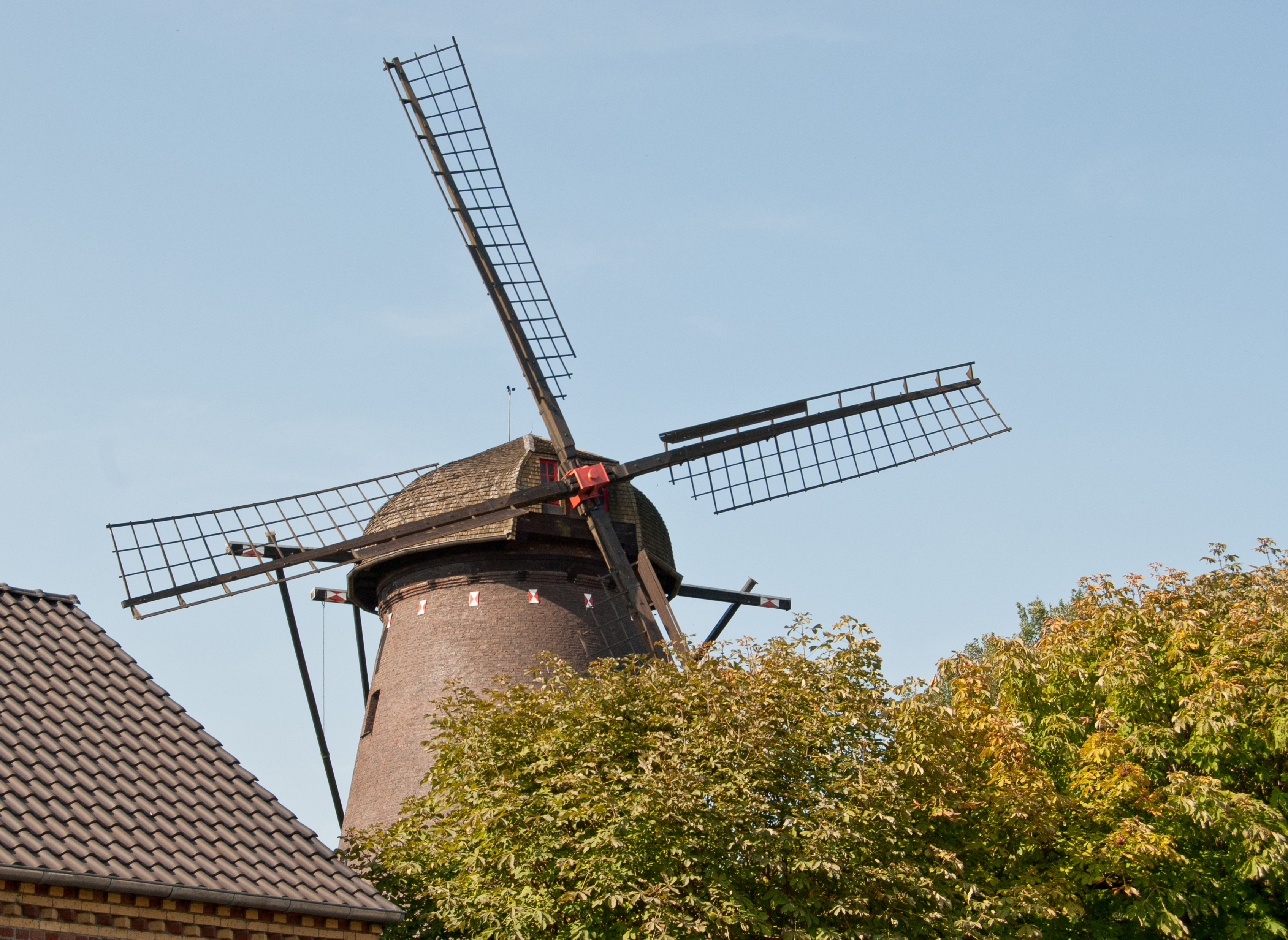 Neukirchen-Vluyn (North Rhine-Westphalia, Germany) – old windmill in the “Dong” This image shows a heritage building in Germany, located in the North Rhine-Westphalian city Neukirchen-Vluyn (no. 4). This photograph was taken with a Nikon D3000.